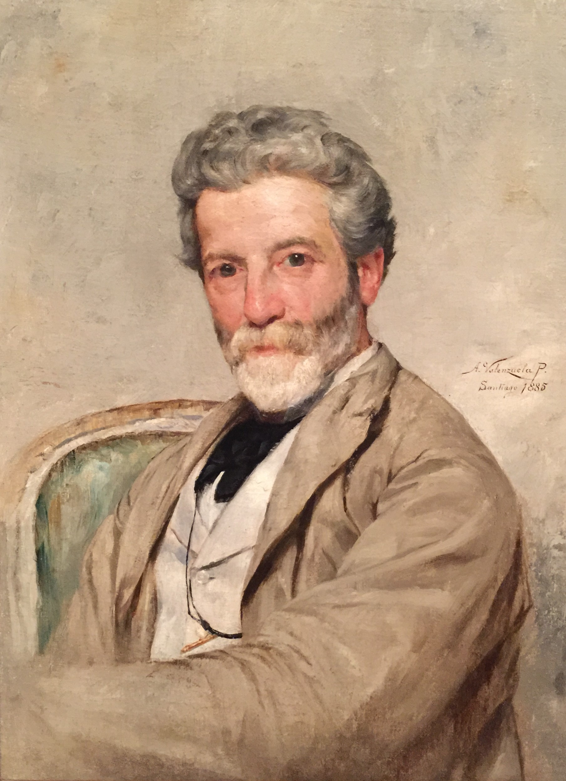 Retrato del pintor italiano Juan Mochi (1831–1892) Alternative names Giovanni MochiDescriptionItalian painterDate of birth/death 1831 1892Location of birth/death Florence SantiagoWork period19th century date QS:P,+1850-00-00T00:00:00Z/7Work location Florence, Rome, Paris, ChileAuthority control : Q20031947 VIAF: 95752146 ULAN: 500011681 RKD: 56451 creator QS:P170,Q20031947 , que fue maestro de Valenzuela Puelma